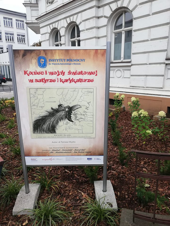 Panel tytułowy pierwszej wystawy przygotowanej przez Instytut Północny im. Wojciecha Kętrzyńskiego w Olsztynie pt. Koniec I wojny światowej w satyrze i karykaturze